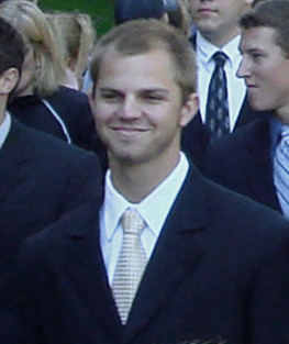 Jimmy Clausen on the traditional Notre Dame Team Walk to the Stadium.